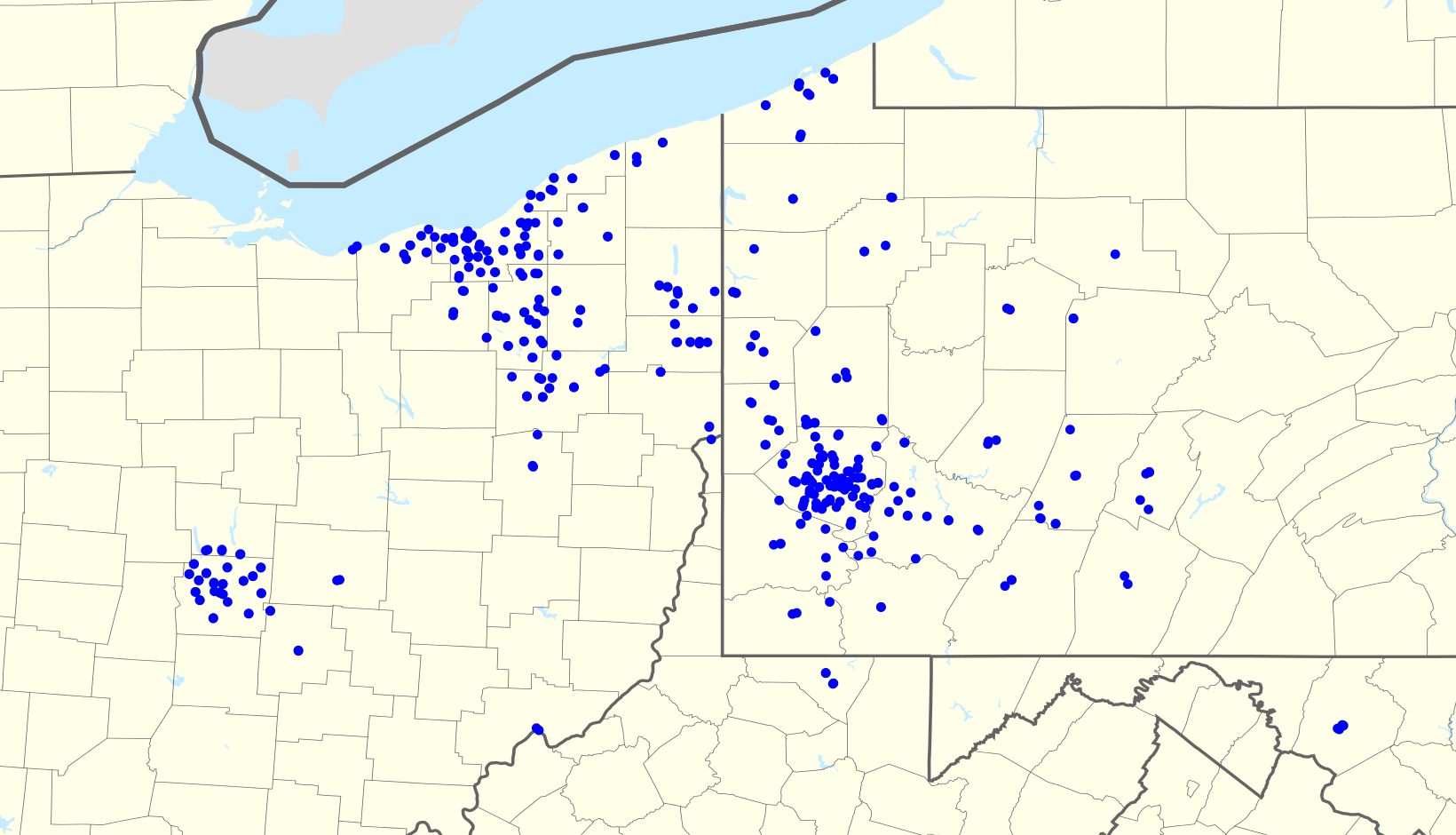 Footprint of Giant Eagle stores within the United States.